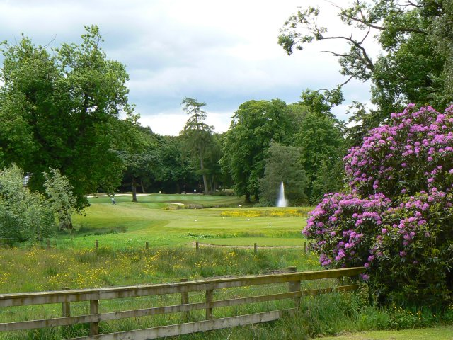 Golf course in a garden